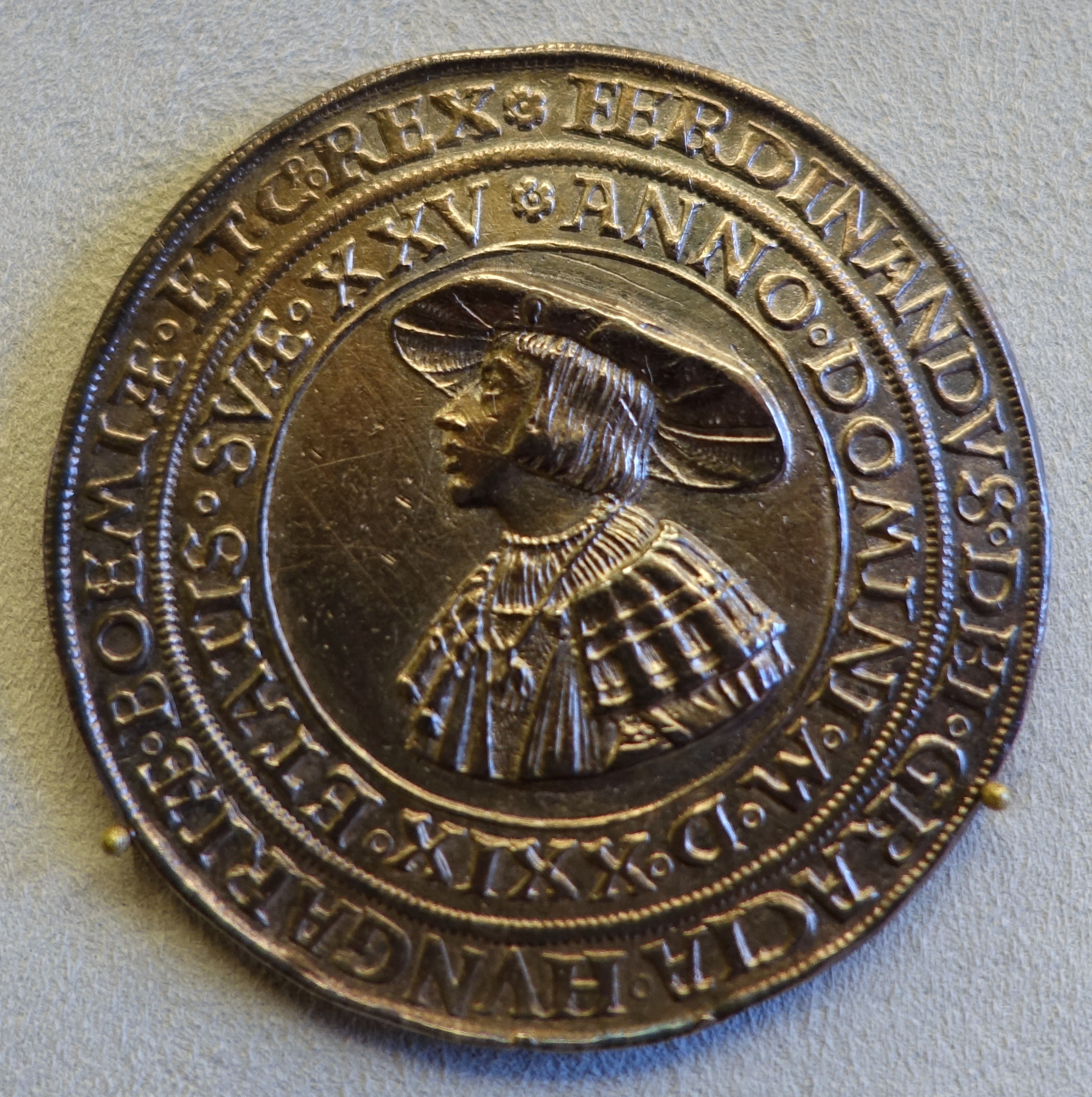 Exhibit in the Bode-Museum, Berlin, Germany. This work is in the public domain because the artist died more than 100 years ago.